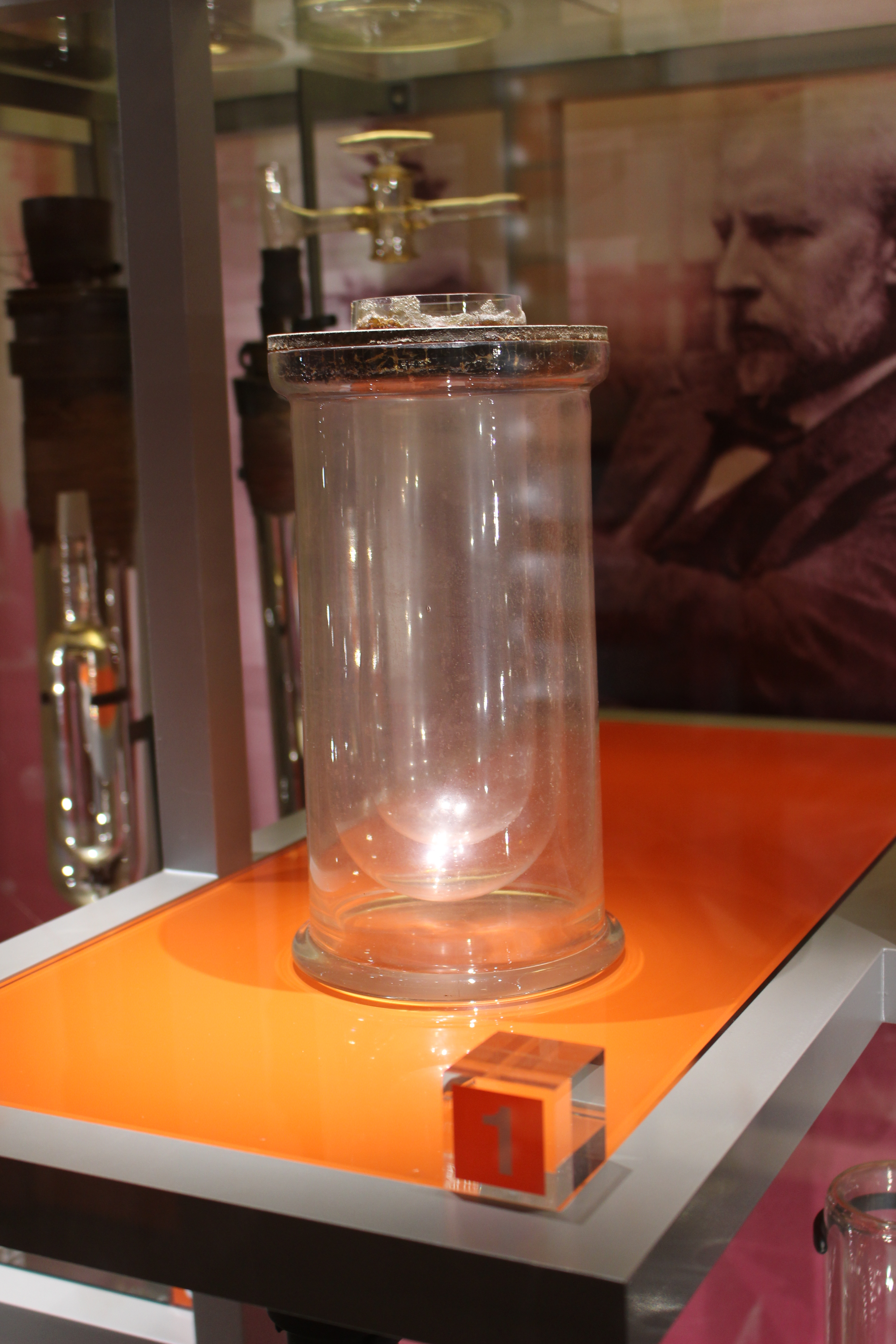 Pictures taken at the museum part of the Royal Institution building at 21 Albemarle St